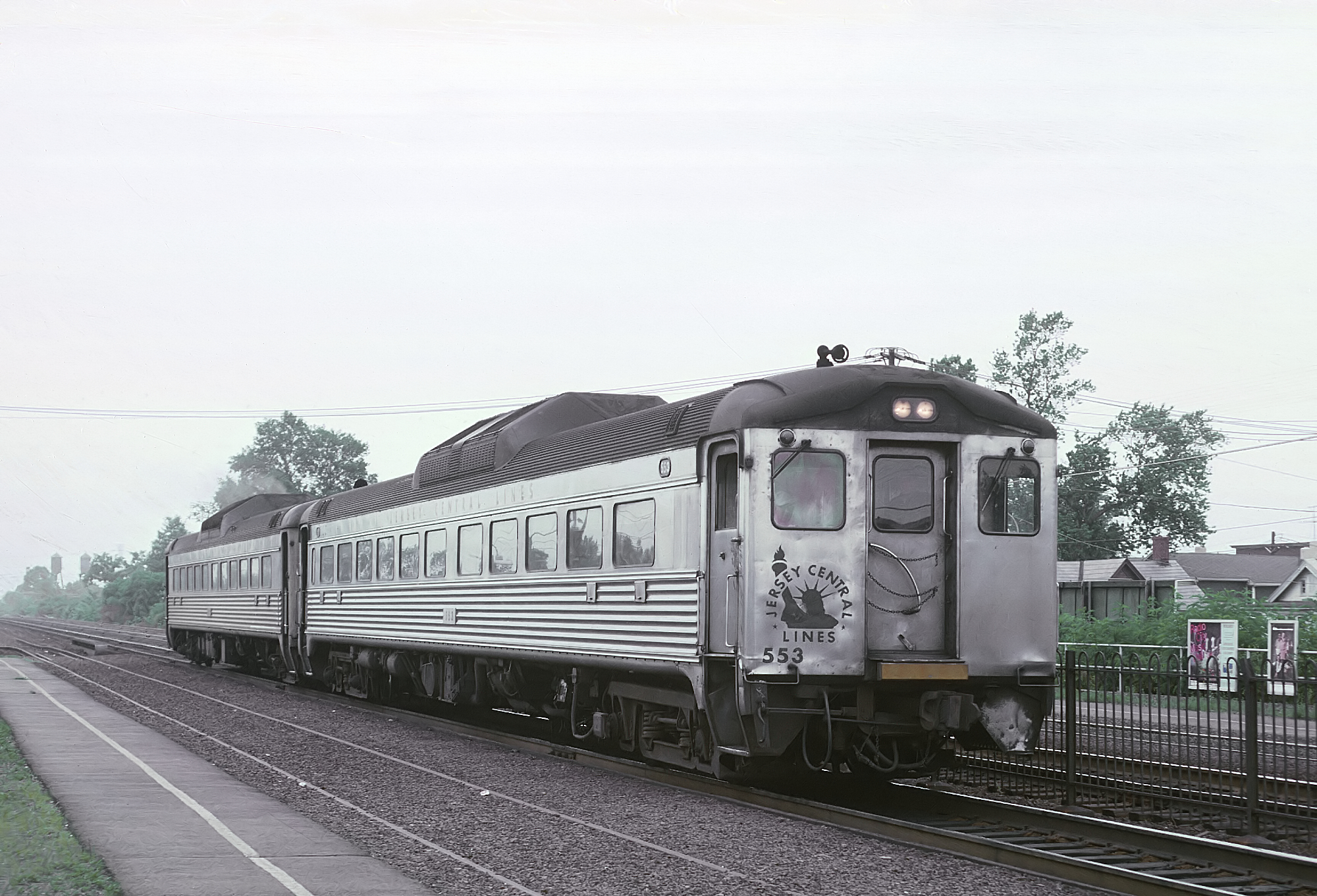 Central Railroad of New Jersey Budd Rail Diesel Car 553 at the Dunellen station on July 4, 1969.